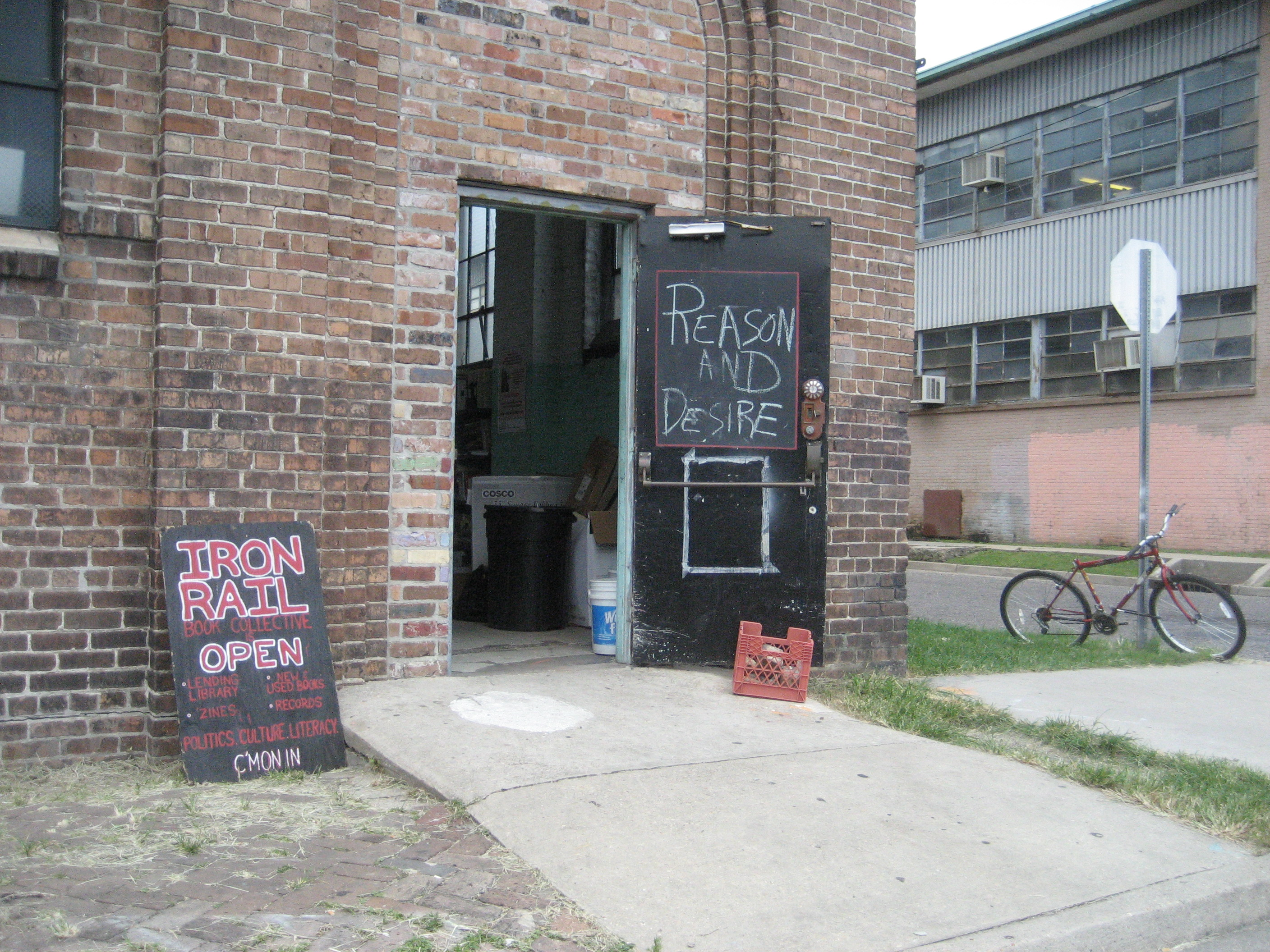 New Orleans: Entrance to "Iron Rail", cooperative book shop and lending library, Faubourg Marigny neighborhood.